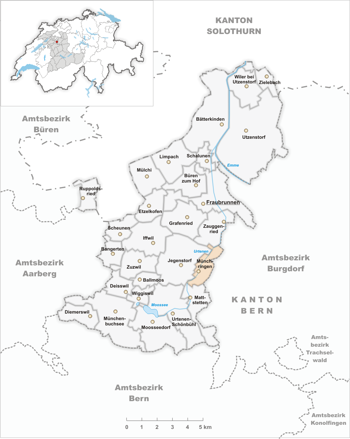 Municipality Münchringen